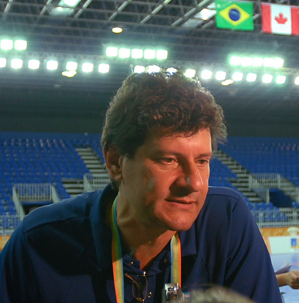 Amauri Ribeiro, Brazilian volleyball coach sitting in the Parapan American Games. Rio de Janeiro, 2007